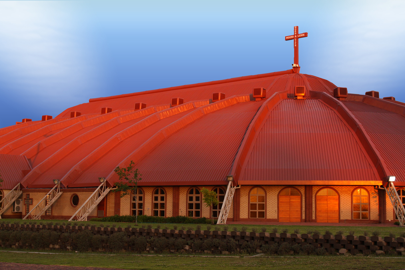 Exterior of the AFM Word and Life in Boksburg South Africa